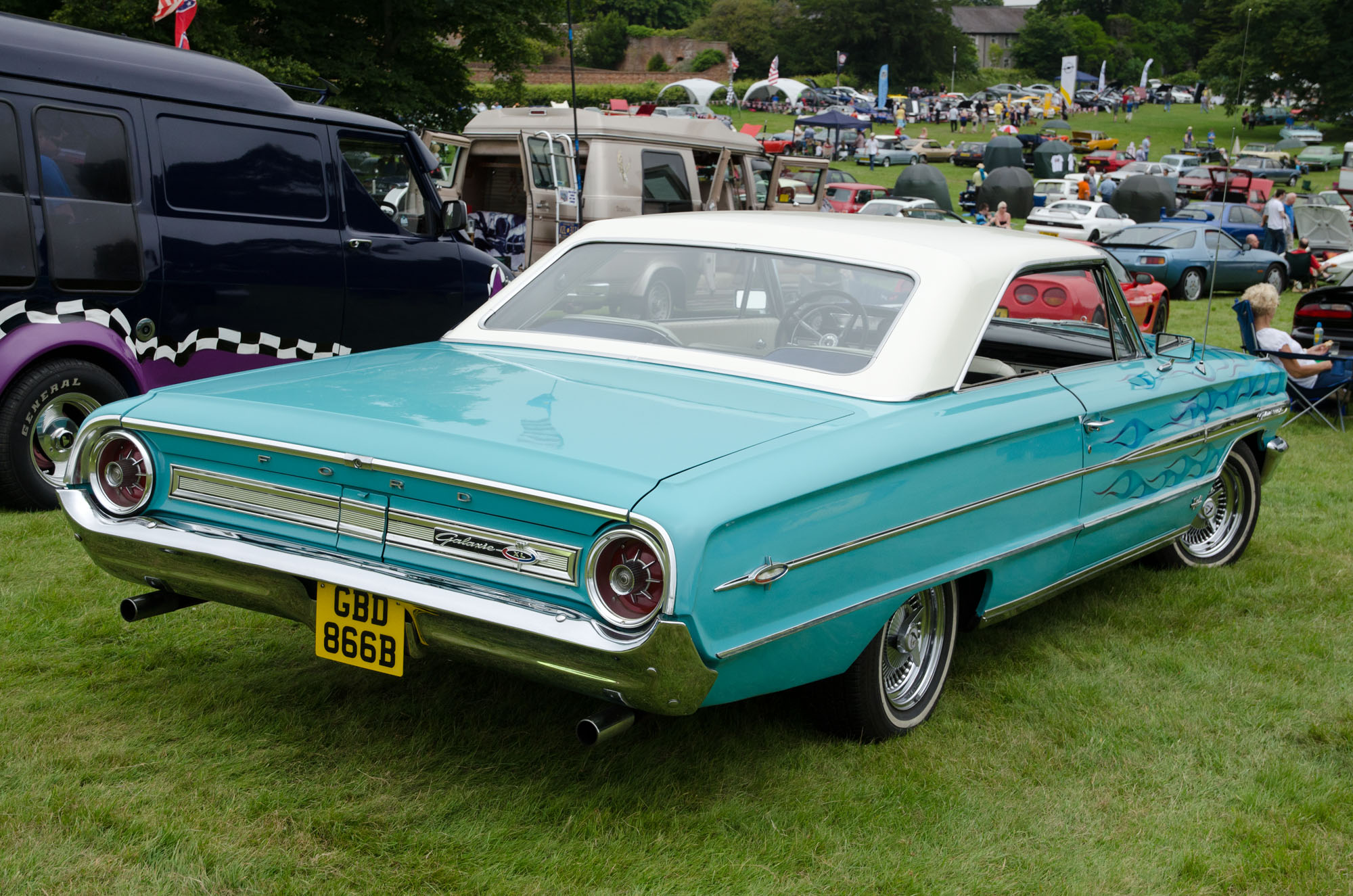 Bodelwyddan Classic Car Show 20/07/2014